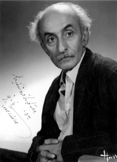 Nimā Yushij (Persian: نیما یوشیج) (November 12, 1896 – January 6, 1960) also called Nimā (نیما), born Ali Esfandiāri (علی اسفندیاری), was a contemporary Tabarian and Persian poet who started the she’r-e now (شعر نو, "new poetry") also known as she’r-e nimaa'i (شعر نیمایی, "Nimaic poetry") trend in Iran. He is considered as the father of modern Persian poetry.